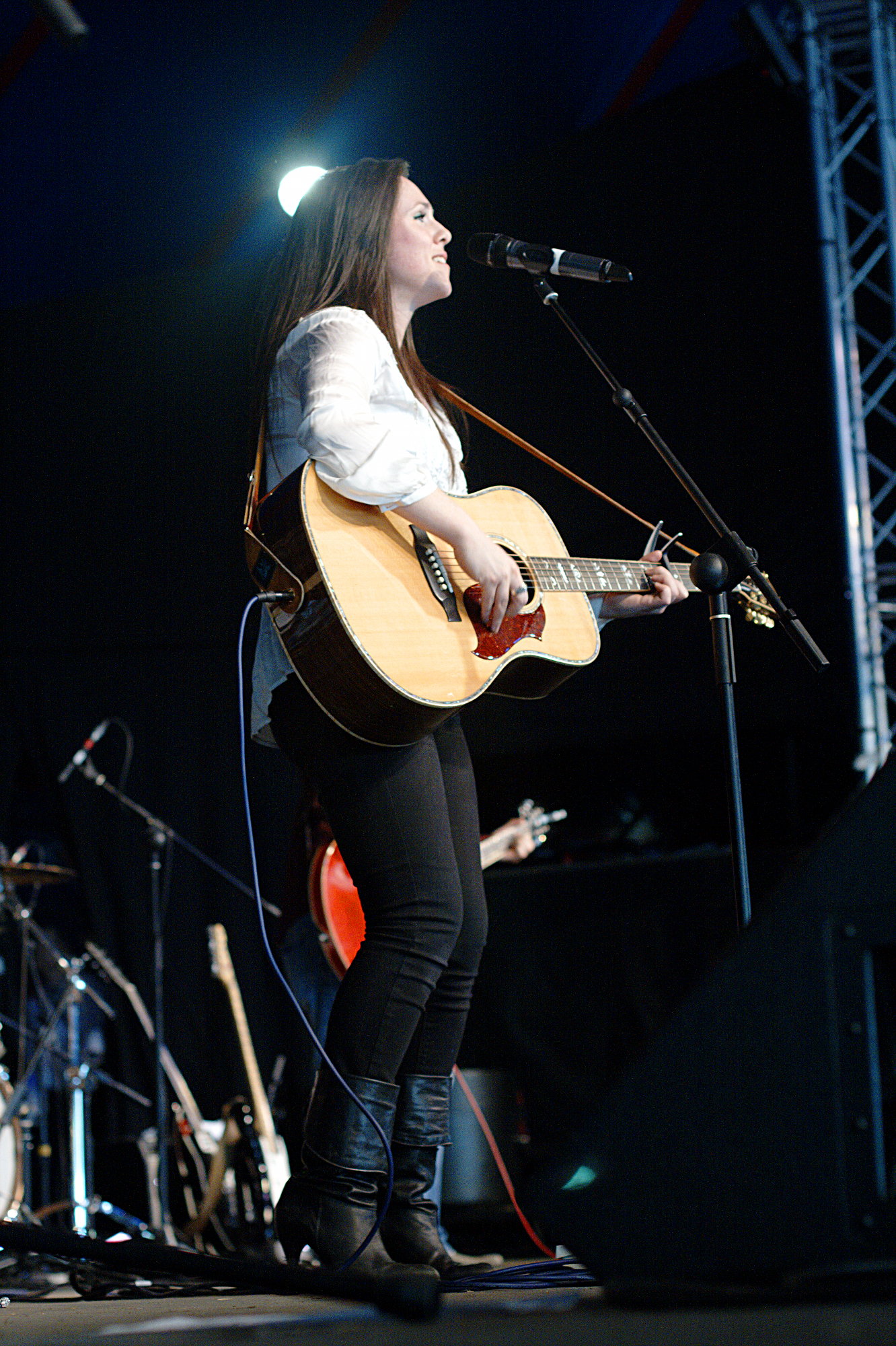 Sandi Thom at the Ealing Blues Festival, held in Walpole Park Ealing.